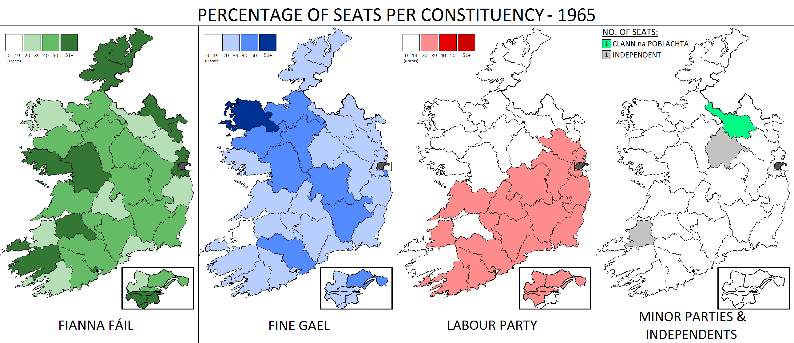 Graphical representation of the 2007 Irish general election results. Created by myself using data from Wikipedia and literary sources.